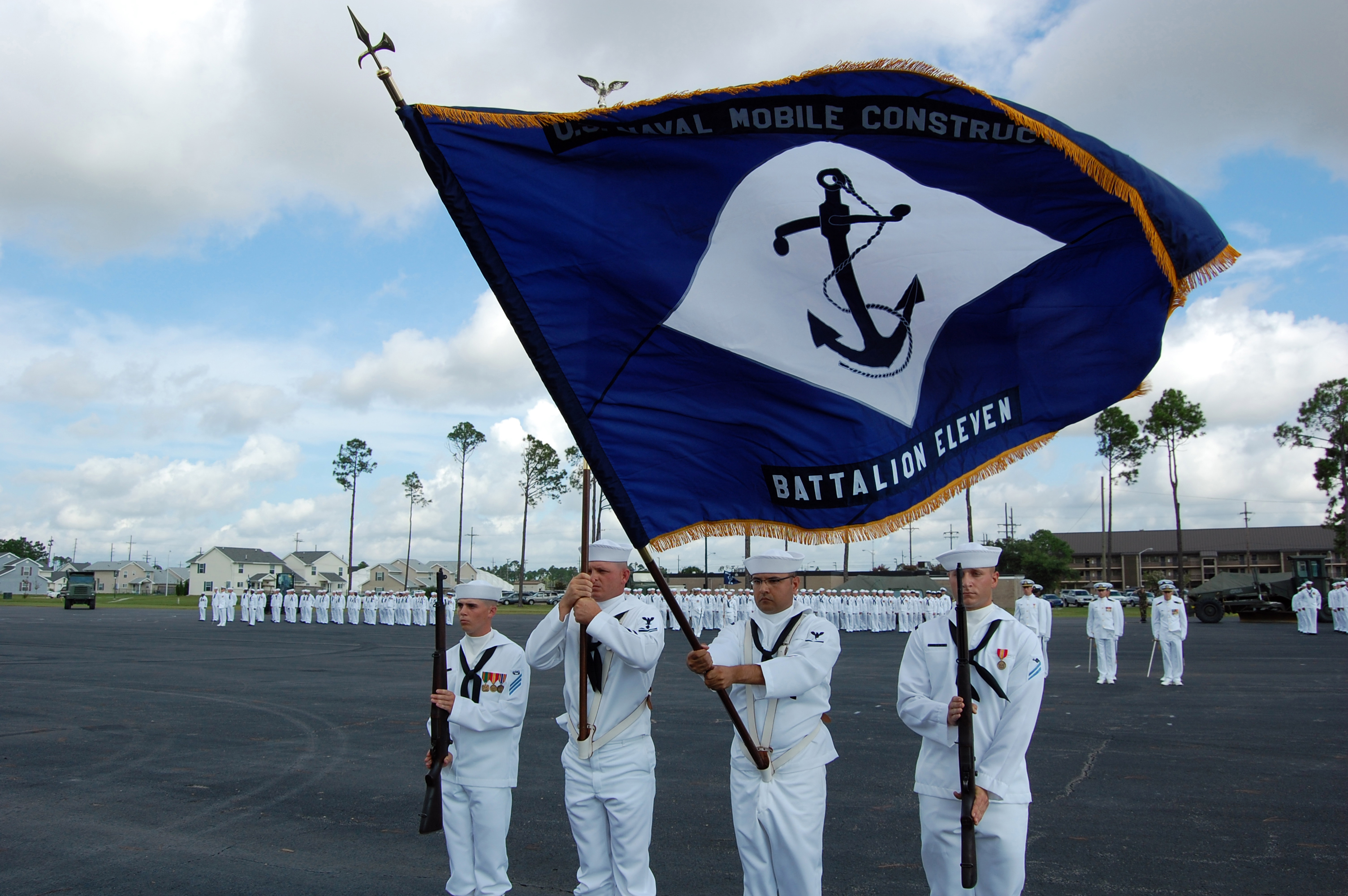 GULFPORT, Miss. (Sept. 14, 2007) - Naval Mobile Construction Battalion (NMCB) 11’s organizational colors wave for the first time since being decommissioned in December 1969. The re-establishment of the historic battalion comes with the high tempo of the global war on terrorism and the need for the Seabee’s unique skills. U.S. Navy photo by Mass Communication Specialist 2nd Class Erick S. Holmes (RELEASED)